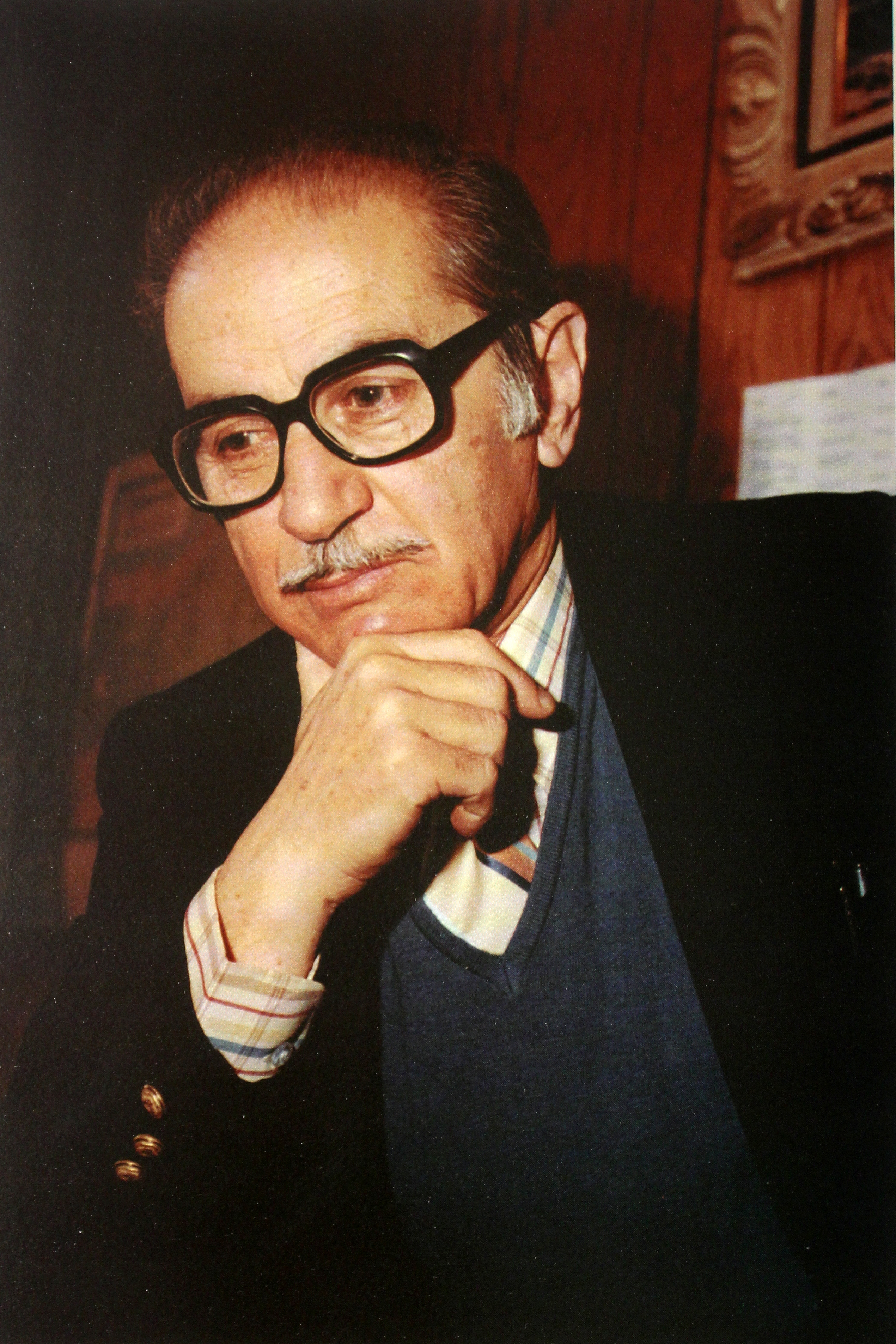 The making of this file was supported by Wikimedia Armenia.